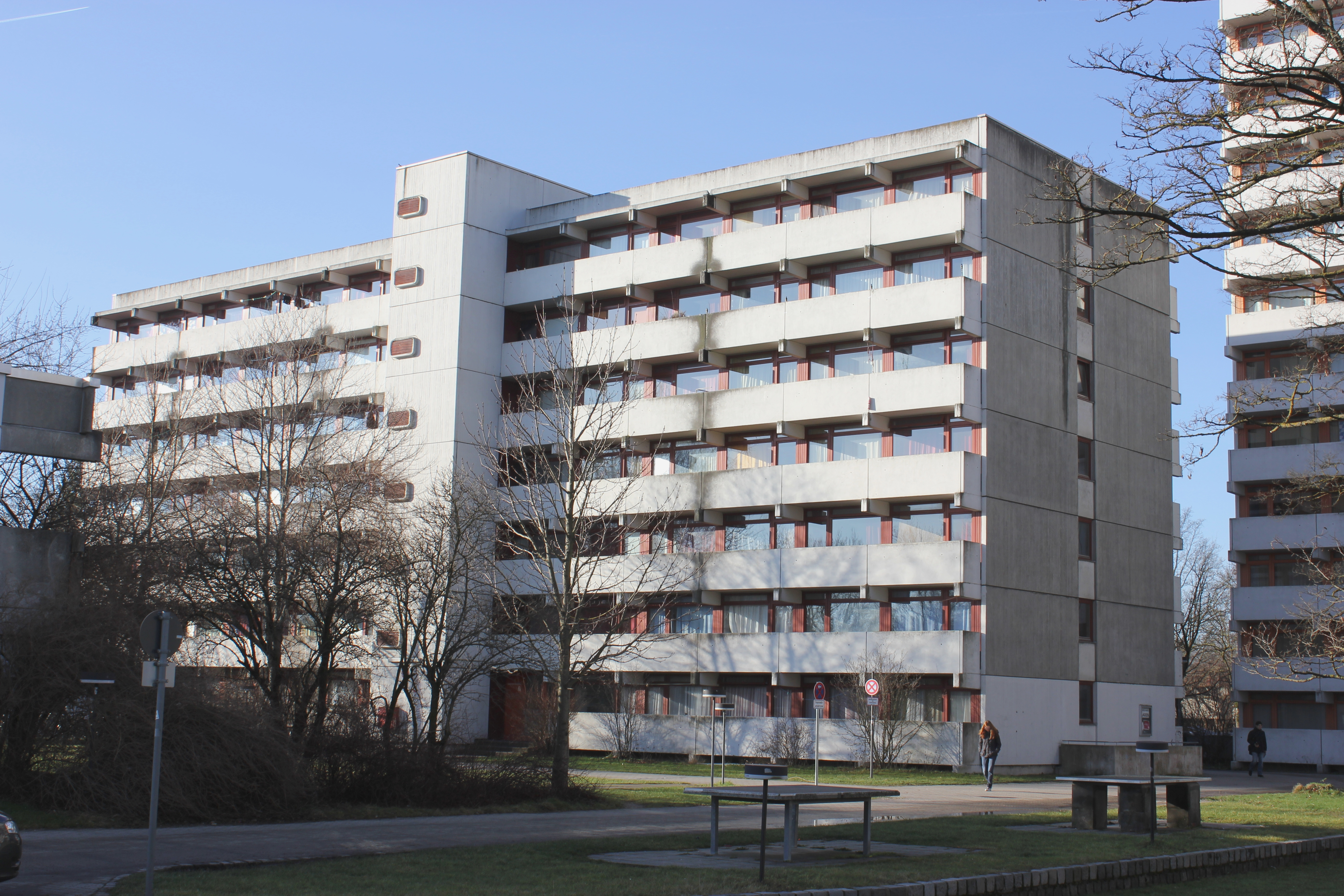 Studentenstadt Freimann in Munich Rotes Haus